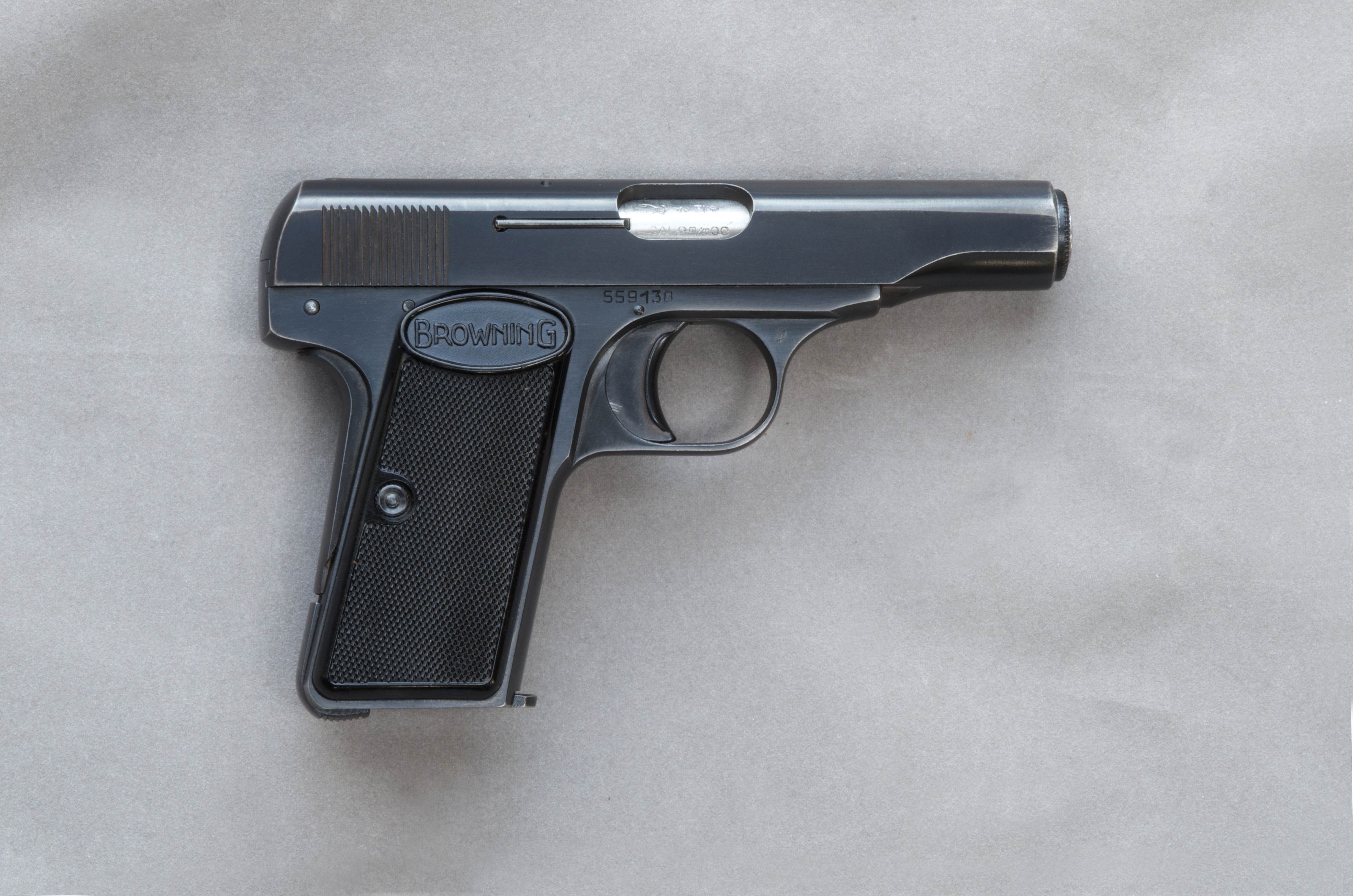 Browning FN Belgium 1910/1955 .380 ACP handgun right side, S/n 559138, manufactured c. 1966.